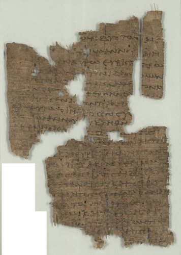 Papyrus 106 verso